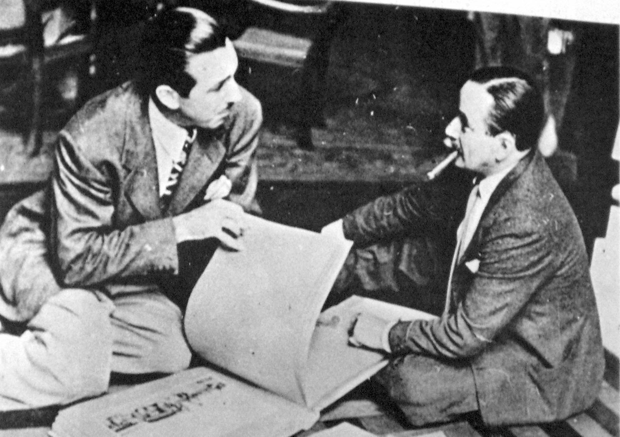 Walt Disney (left) and Argentine painter Florencio Molina Campos during their meeting in the summer 1941.